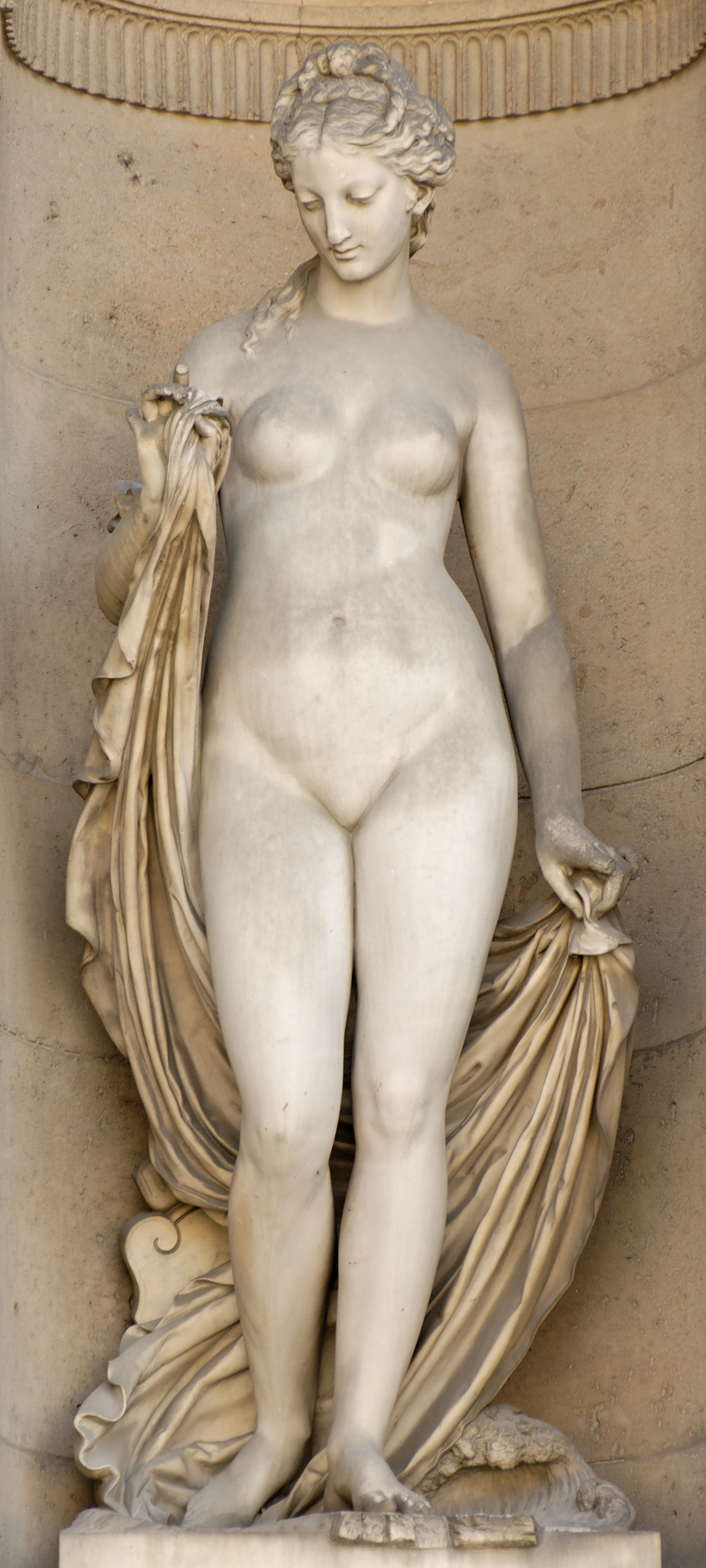 Leucothea (1862), by Jean Jules Allasseur (1818-1903). South façade of the Cour Carrée in the Louvre palace, Paris.